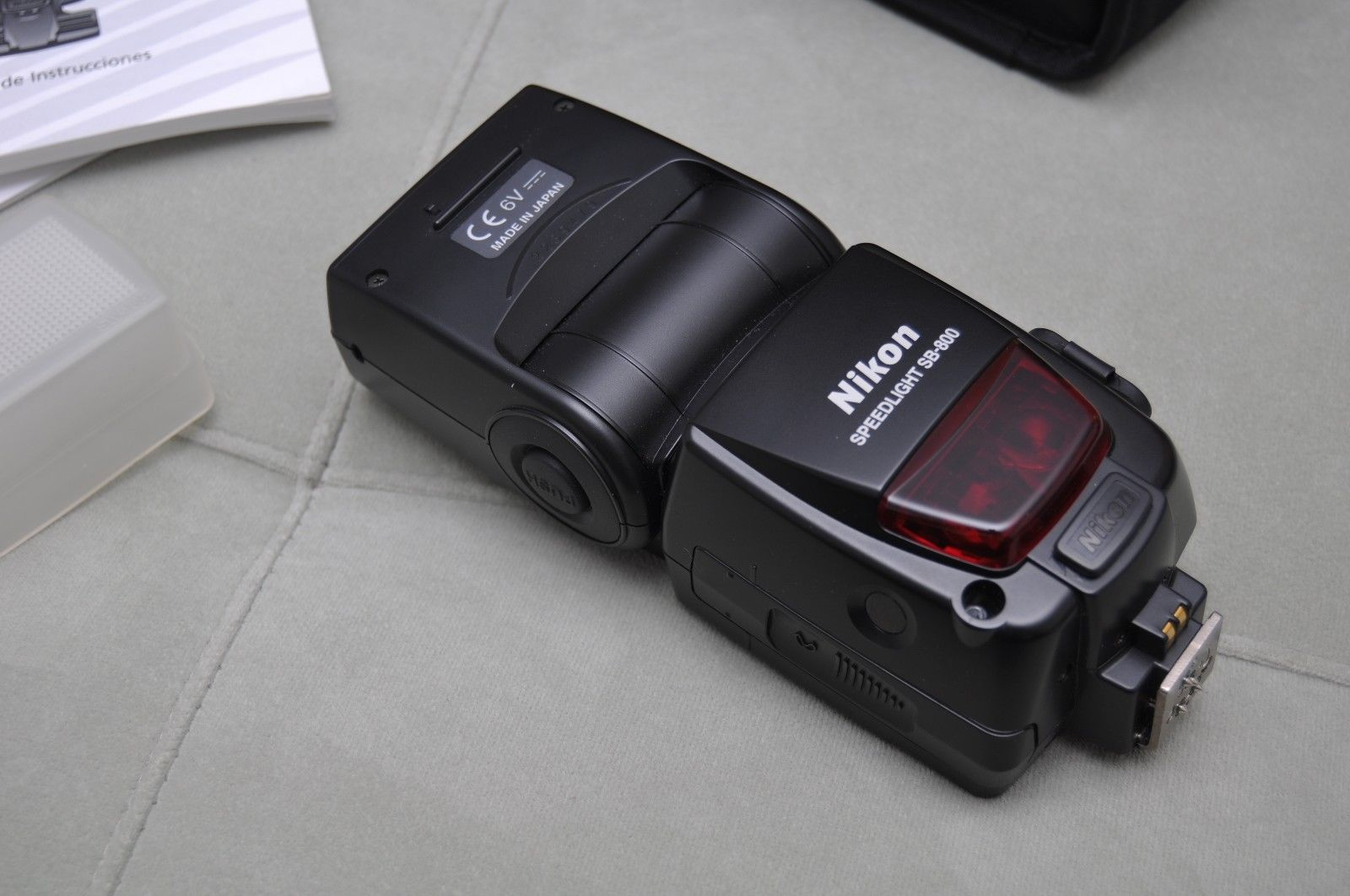 Nikon SB-400 Flash